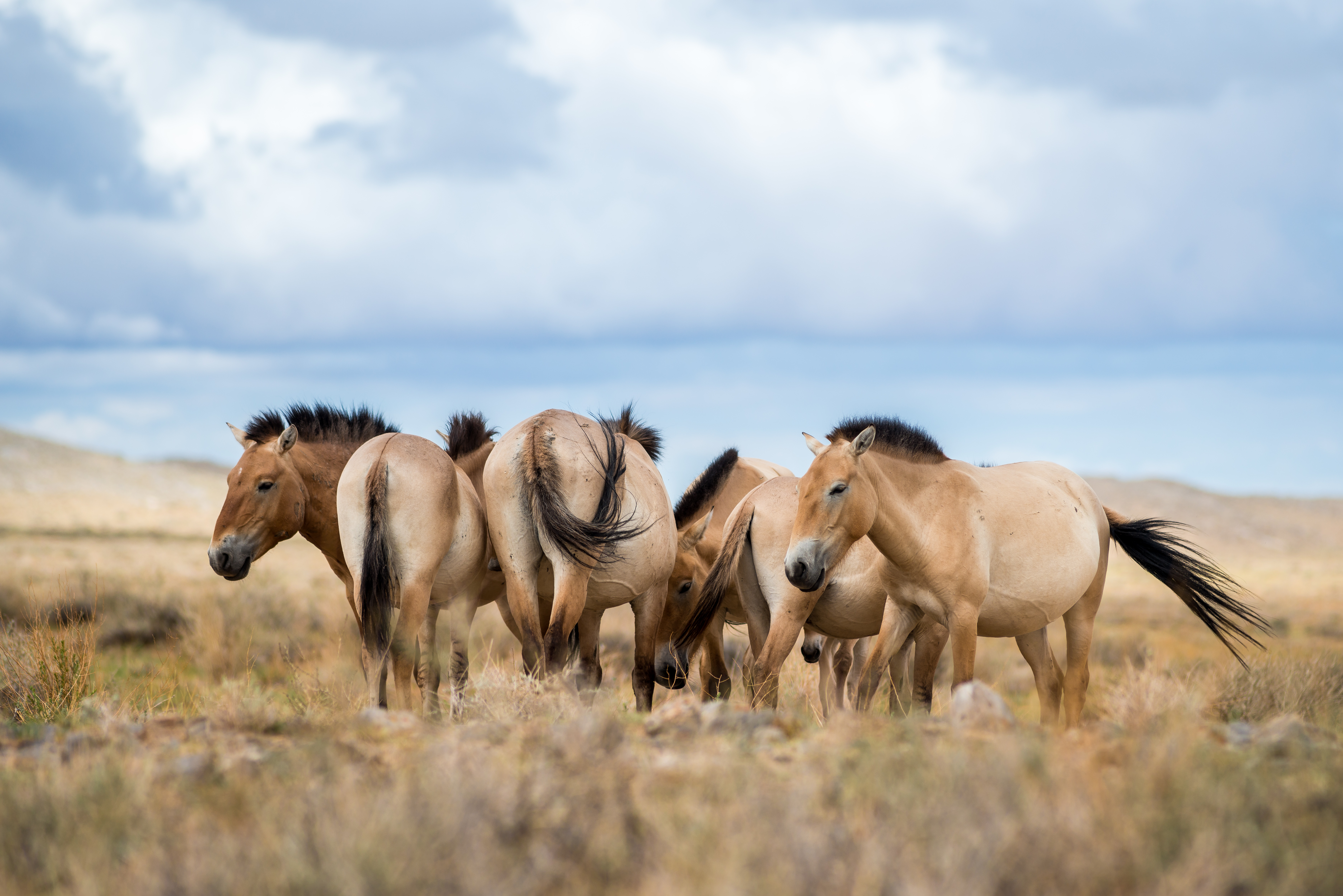 Return of the Wild Horses 2013